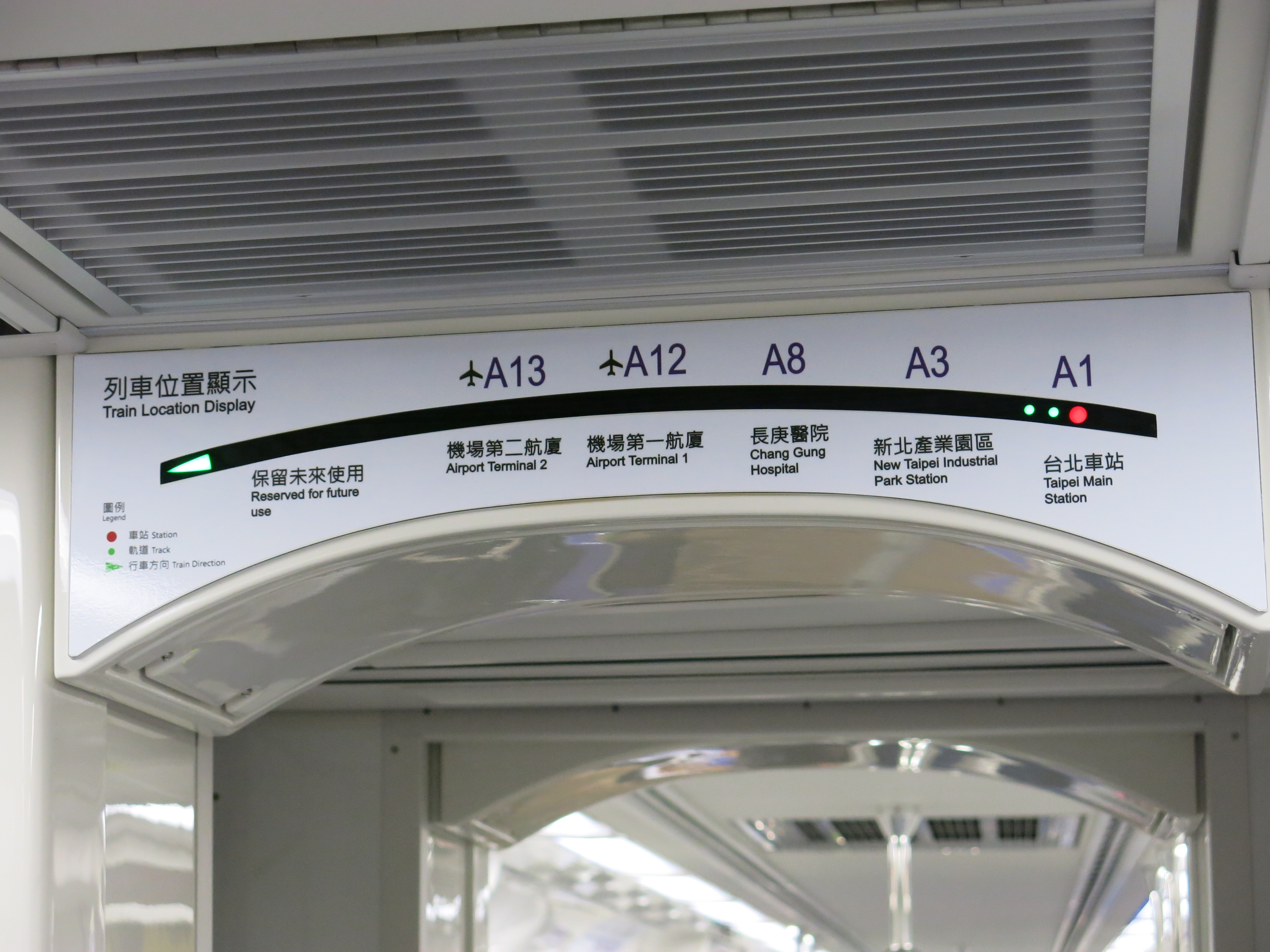 Train location display of Taoyuan Metro Express train